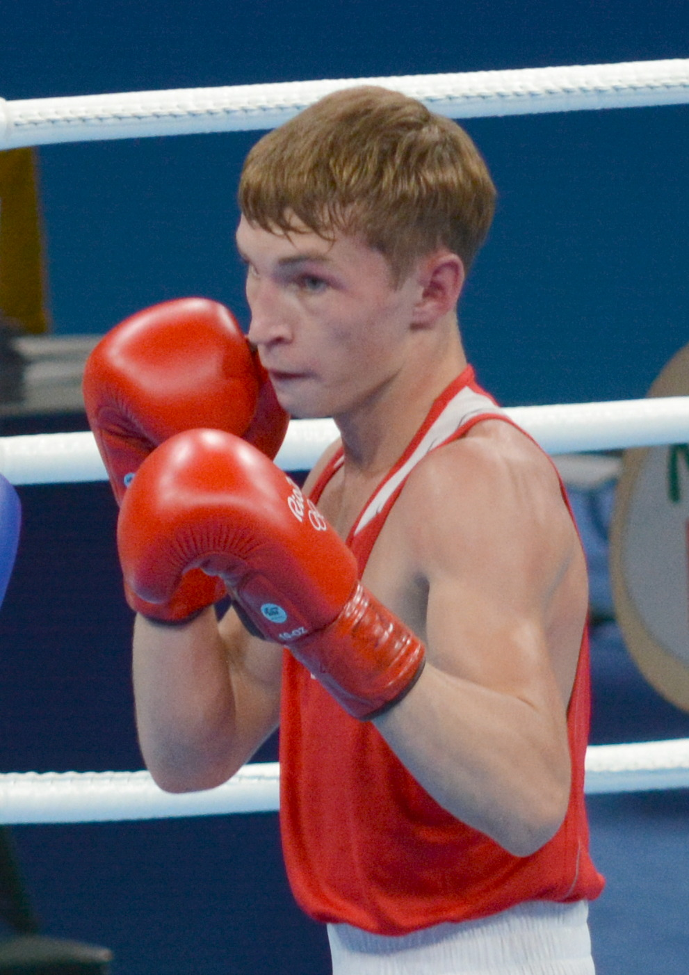 Preliminaries - Boxe 56kg masculine